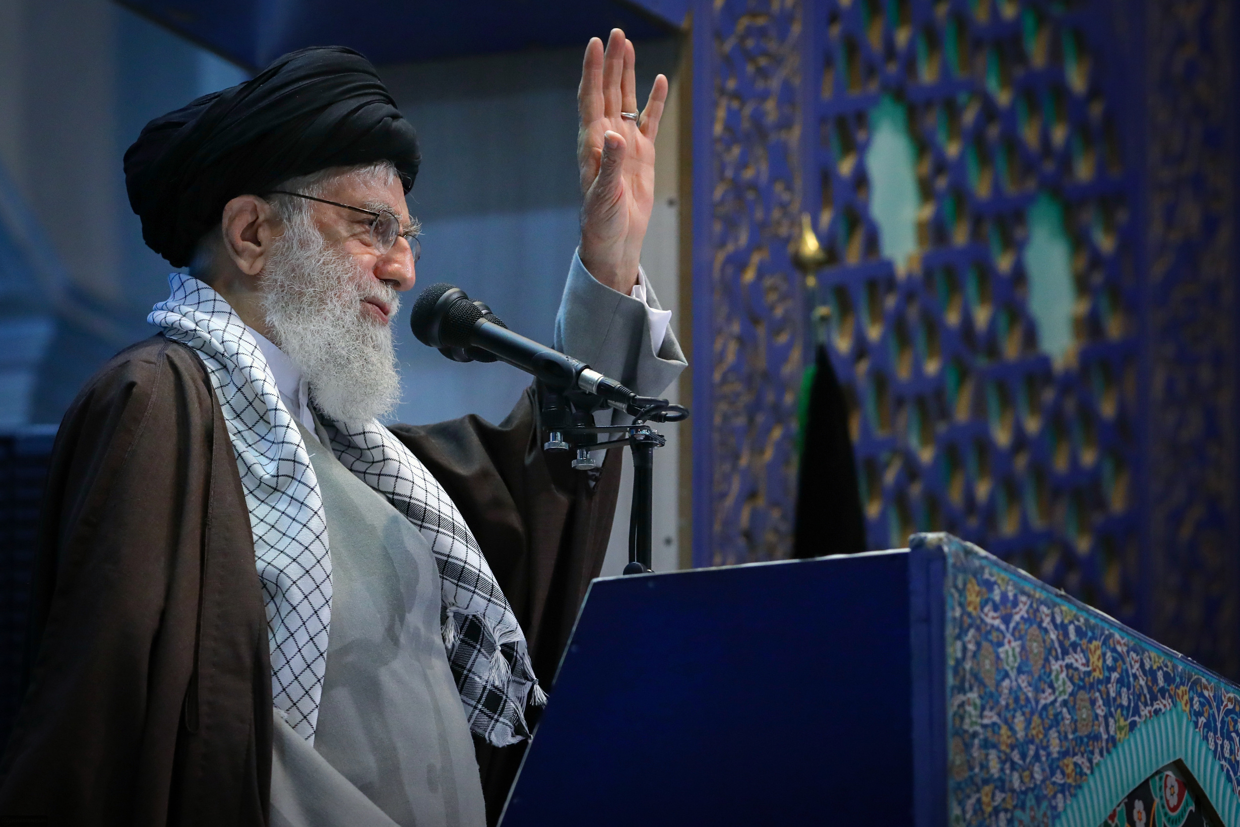 Ali Khamenei in 2020 Tehran Friday Prayer